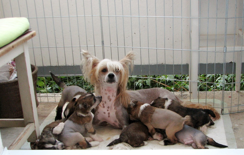 Female Chinese Crested Dog - Auriga Cassiopeia Maytays Minng - with her seven one-month-old puppies - four of them hairless, three powderpuff.